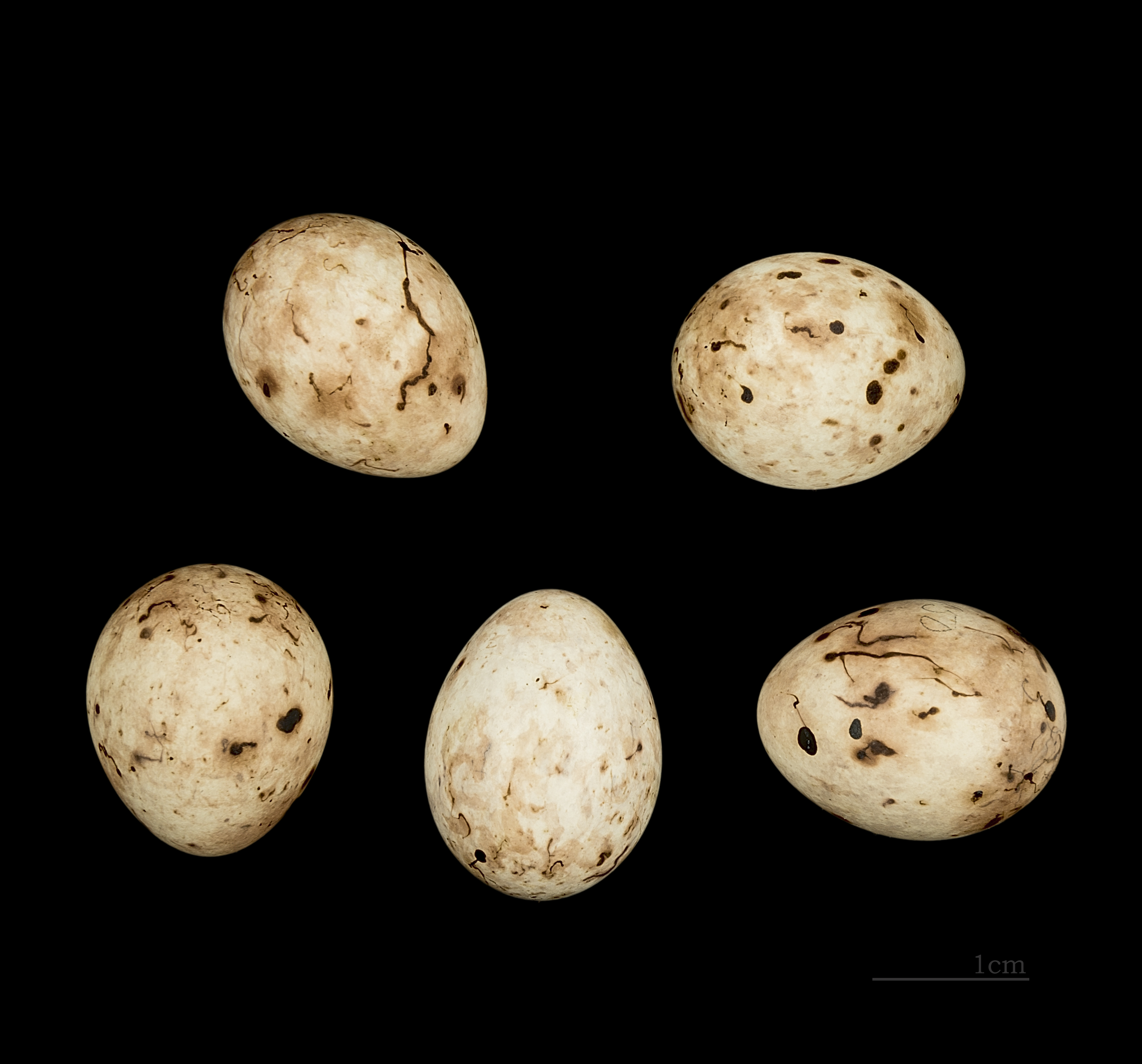 Egg of Yellow Bunting. Collection of Jacques Perrin de Brichambaut.